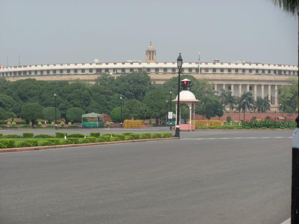 Parliament of India